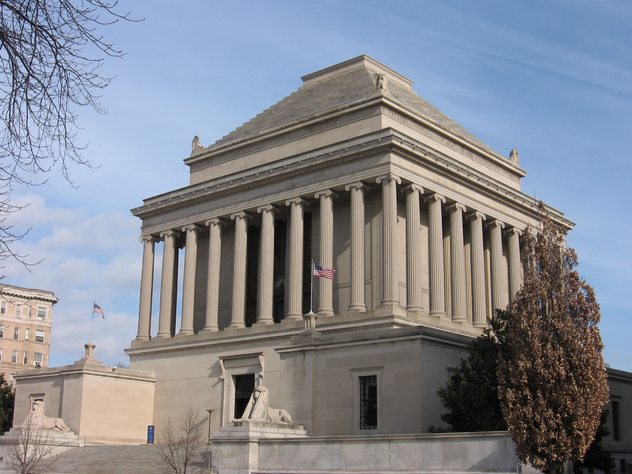 House of the Temple , Washington DC